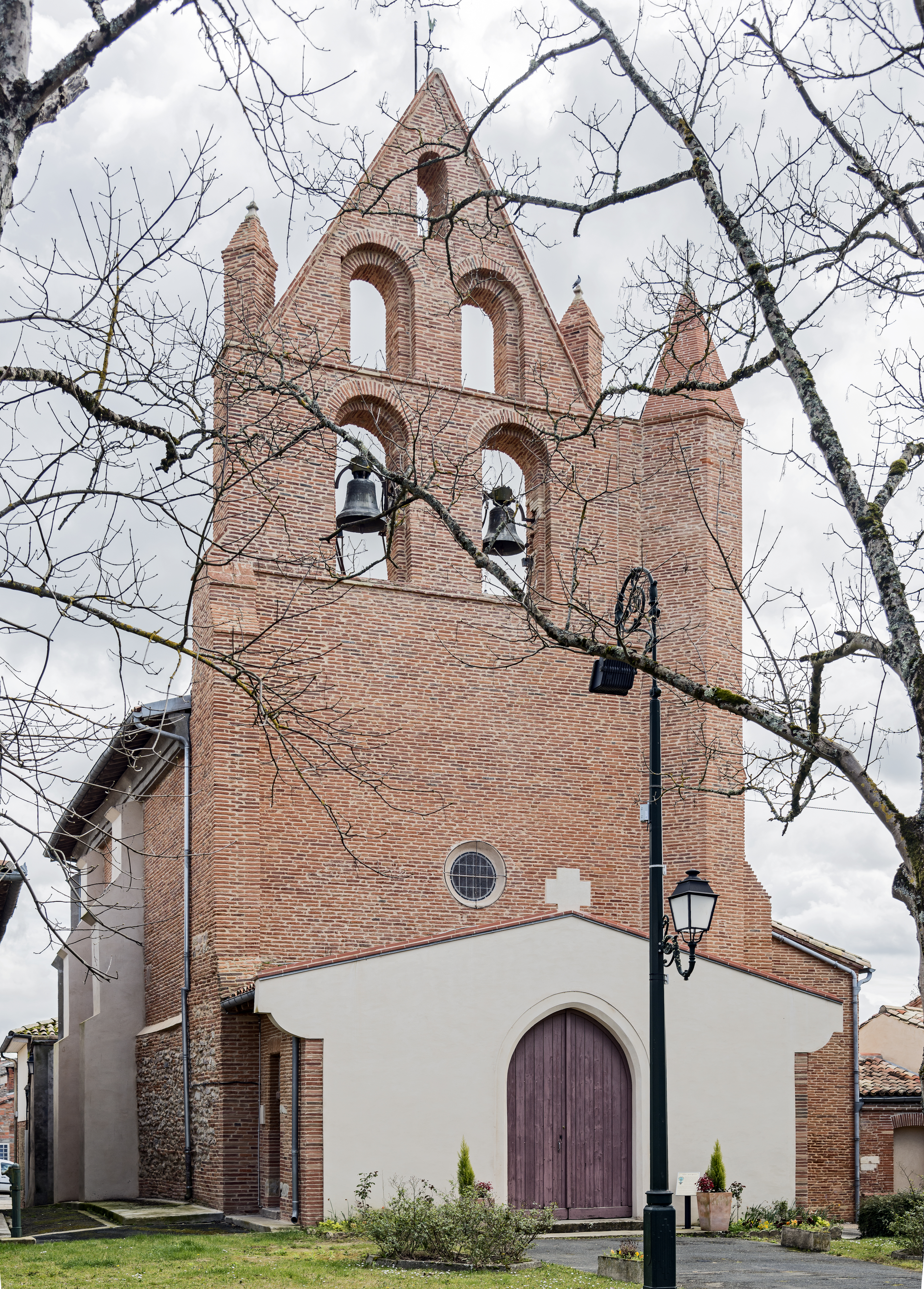 Facade of Church St. Peter in Bazus, Haute-Garonne, France.